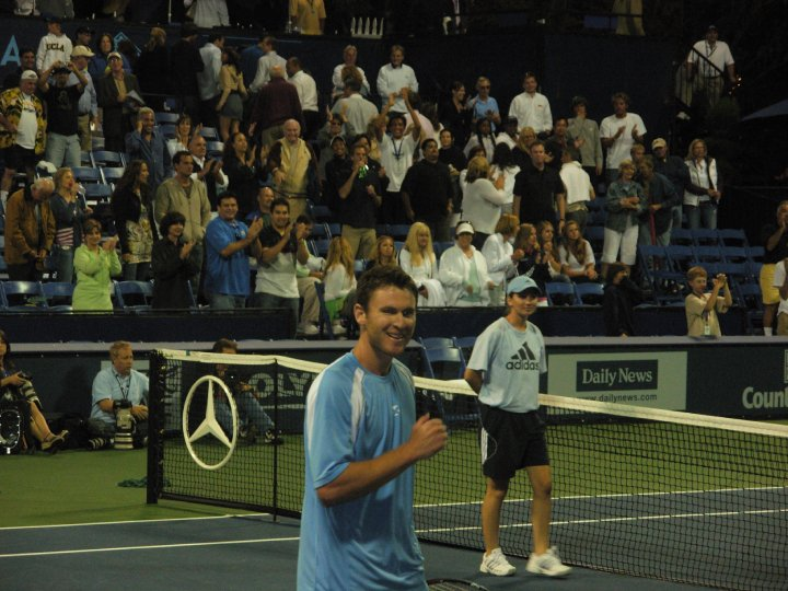 Zack Fleishman of the US celebrates after defeating Fernando Gonzalez of Chile 7-6(5), 6-4 at UCLA's Countrywide Classic.